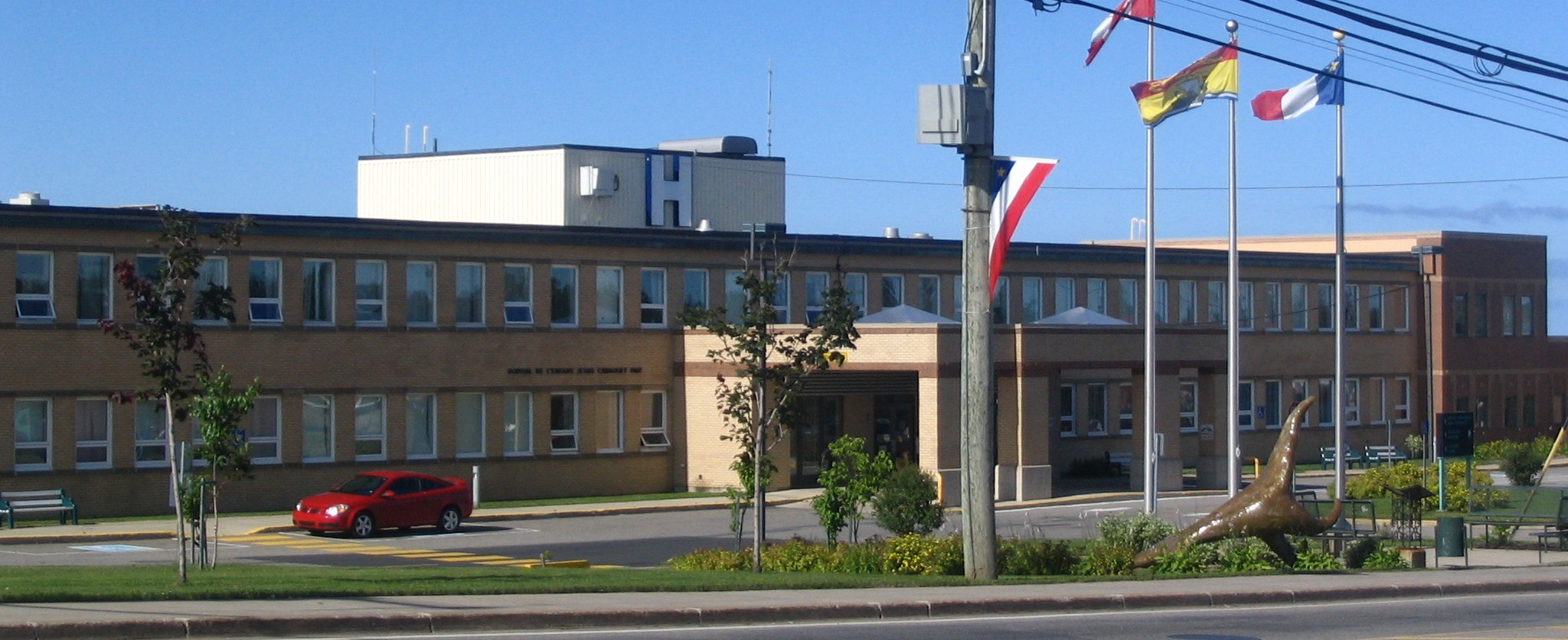 L'Enfant-Jésus hospital in Caraquet, New Brunswick, Canada.